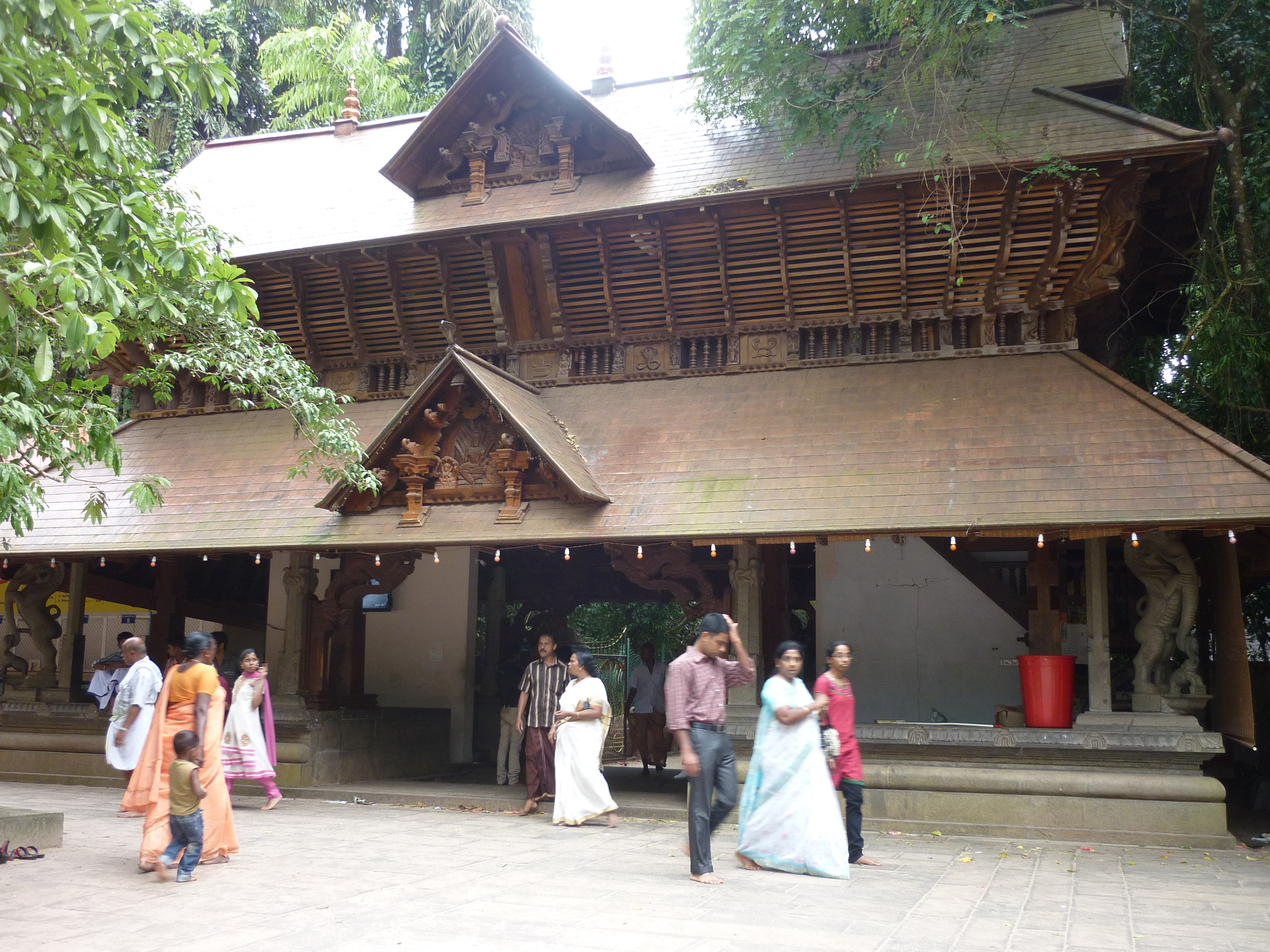 mannarashala temple